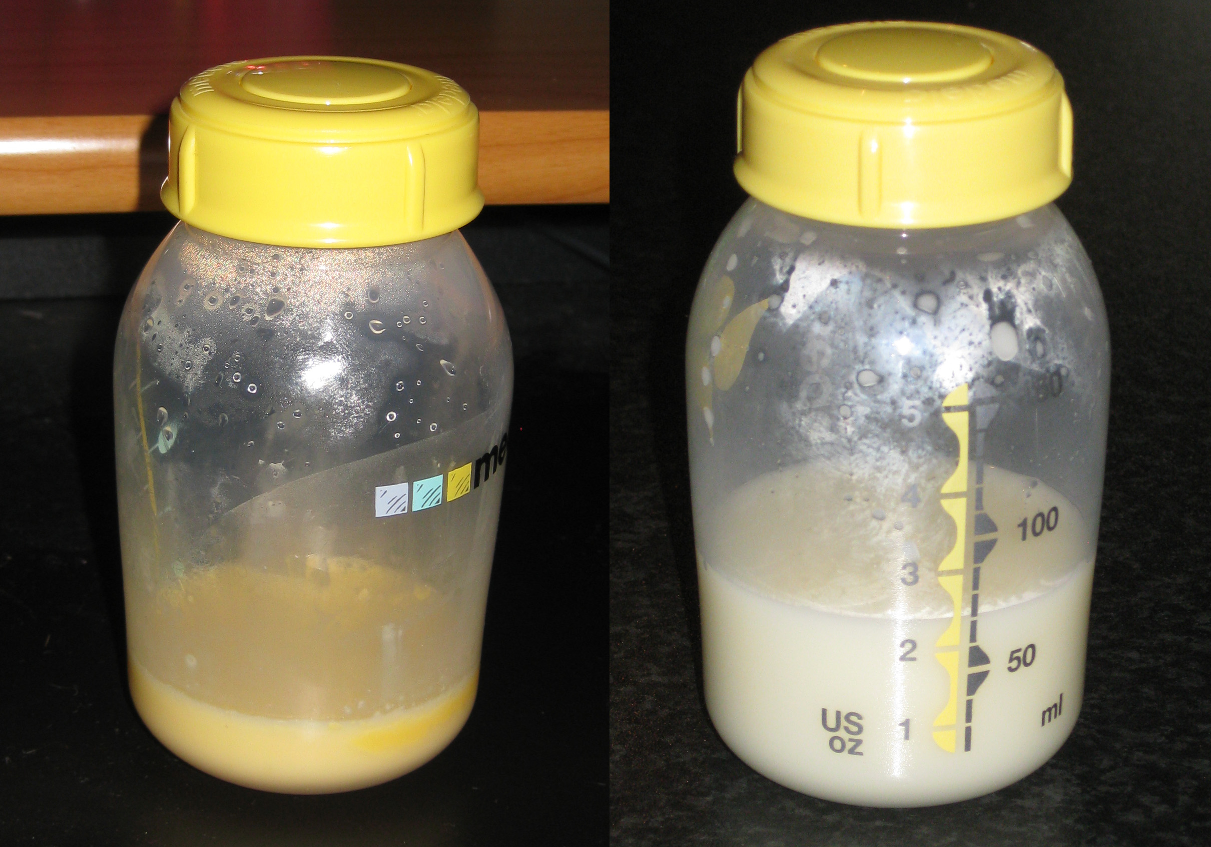 Comparison of expressed colostrum and breast milk